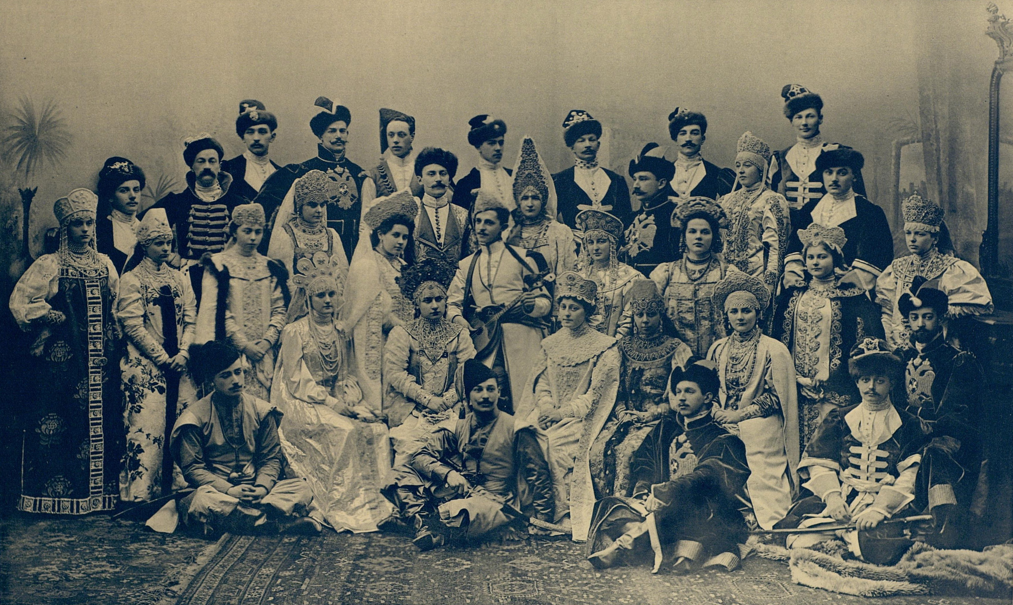 Dancers of mazurka (or "russkaya")